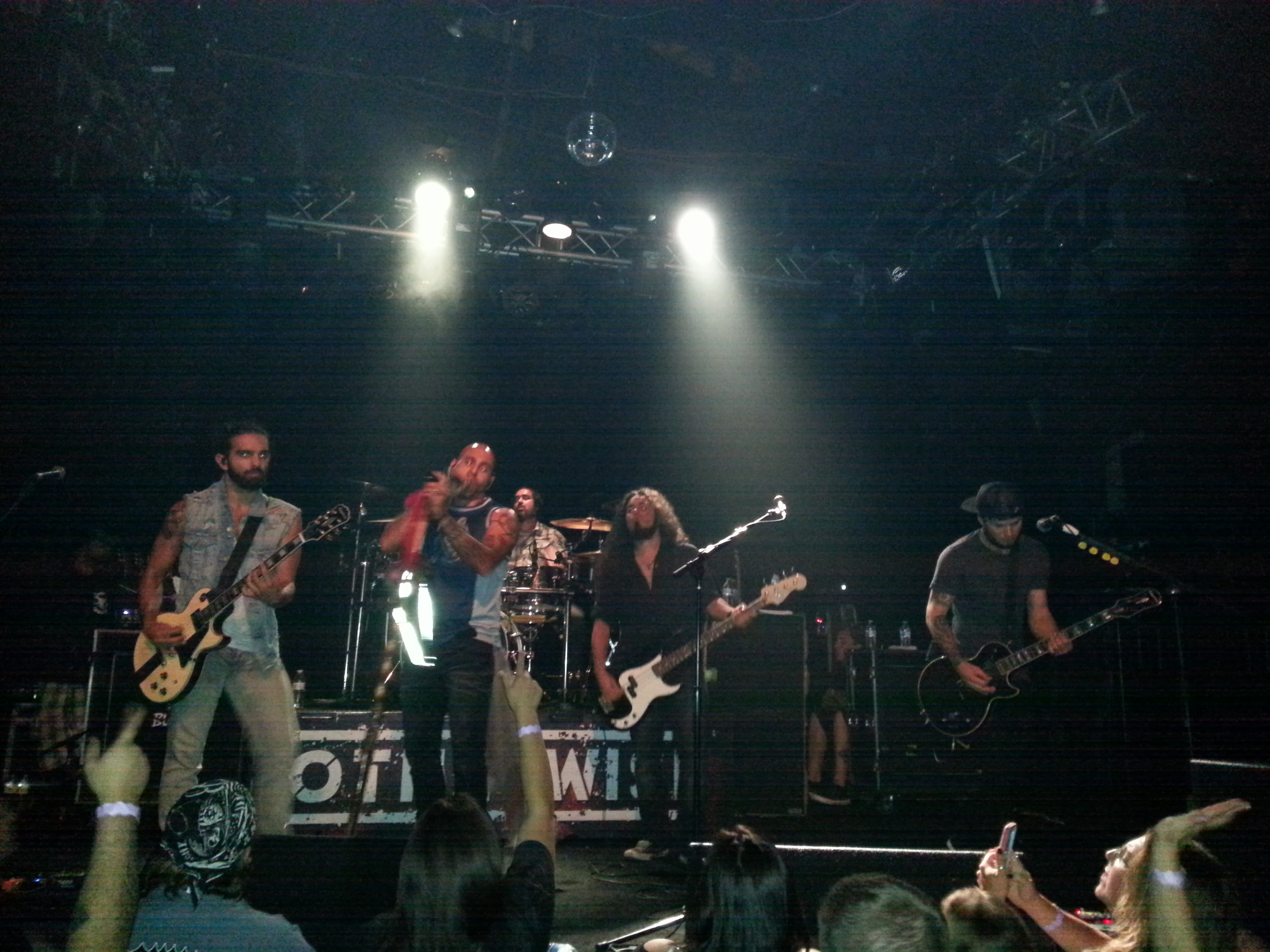 Otherwise performing in 2015